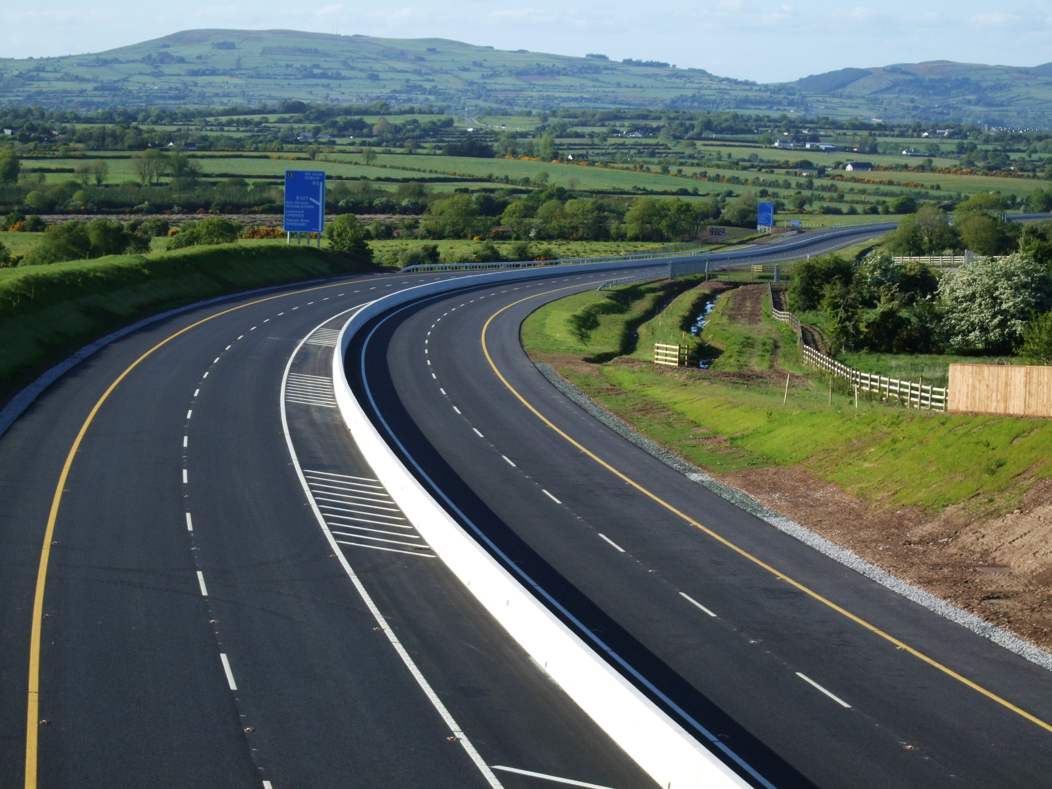 The M8 motorway through County Cork two days before it opened.